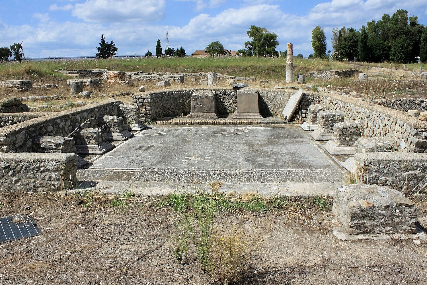 Lucus Feroniae (Italy). Archaeological site, aedes augusti.